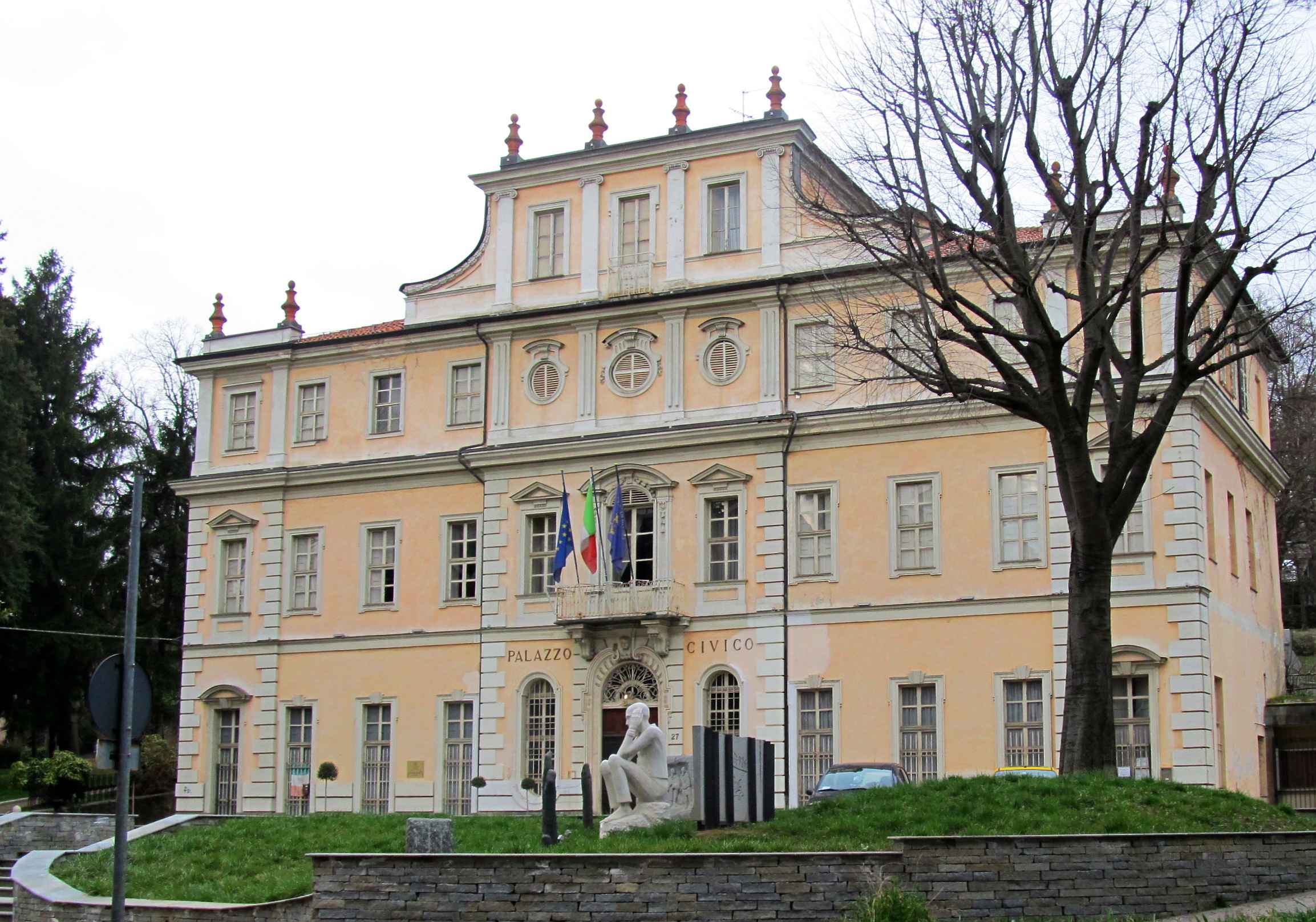 Rivoli (TO, Italy): town hall (former villa Cane d'Ussol, architect Galletti di Pontestura, built in 1775)